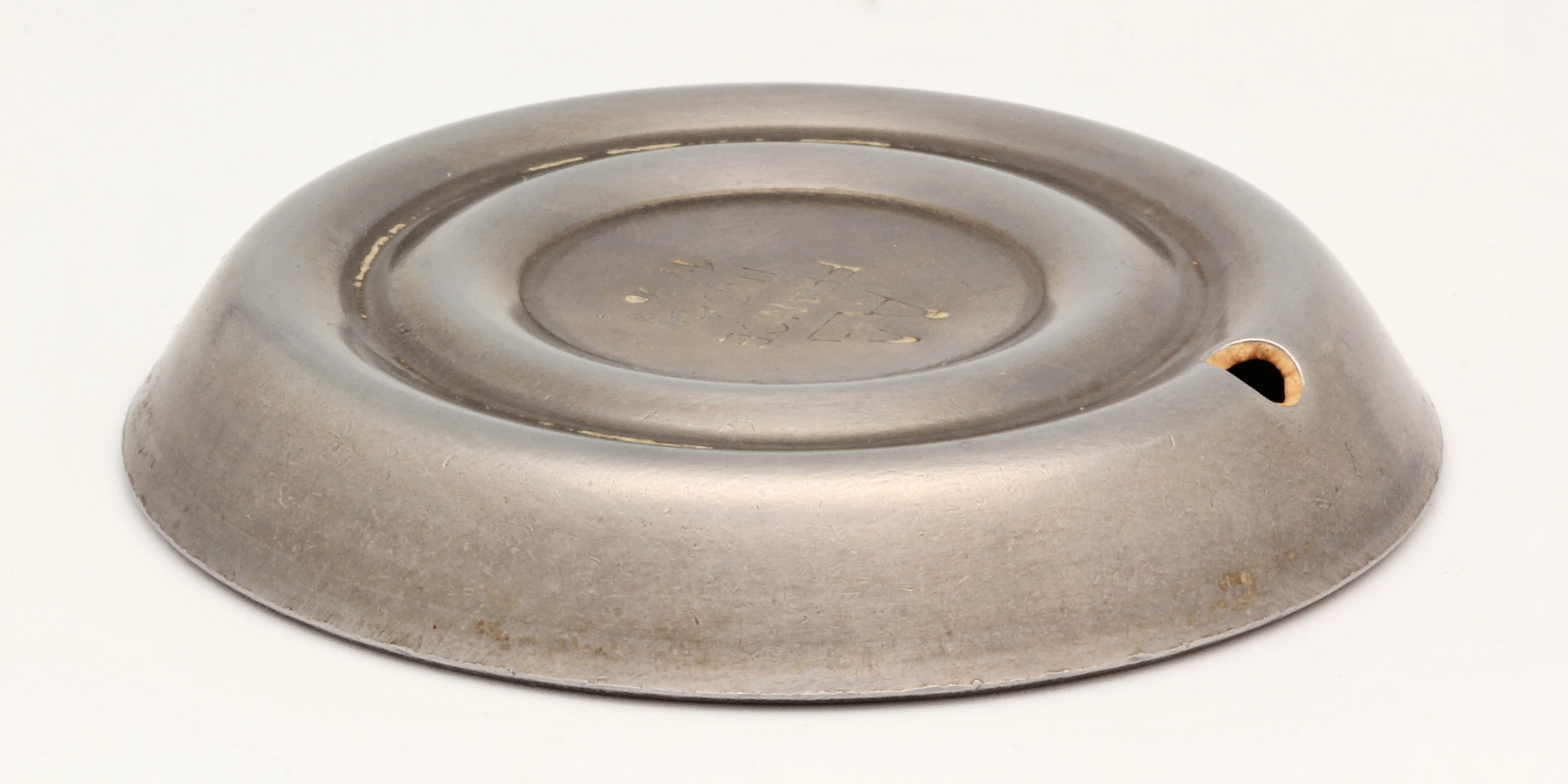 milk watcher